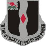 Description/Blazon A silver color metal and enamel device 1 3/32 inches (2.78cm) in height overall consisting of a shield blazoned: Sable, a pale wavy Argent charged with a fusil Gules; on a canton embattled of the second a field gun of the third on a mount Vert. Attached below the shield a silver scroll inscribed "TO THE UTMOST EXTENT OF OUR POWER" in black letters.